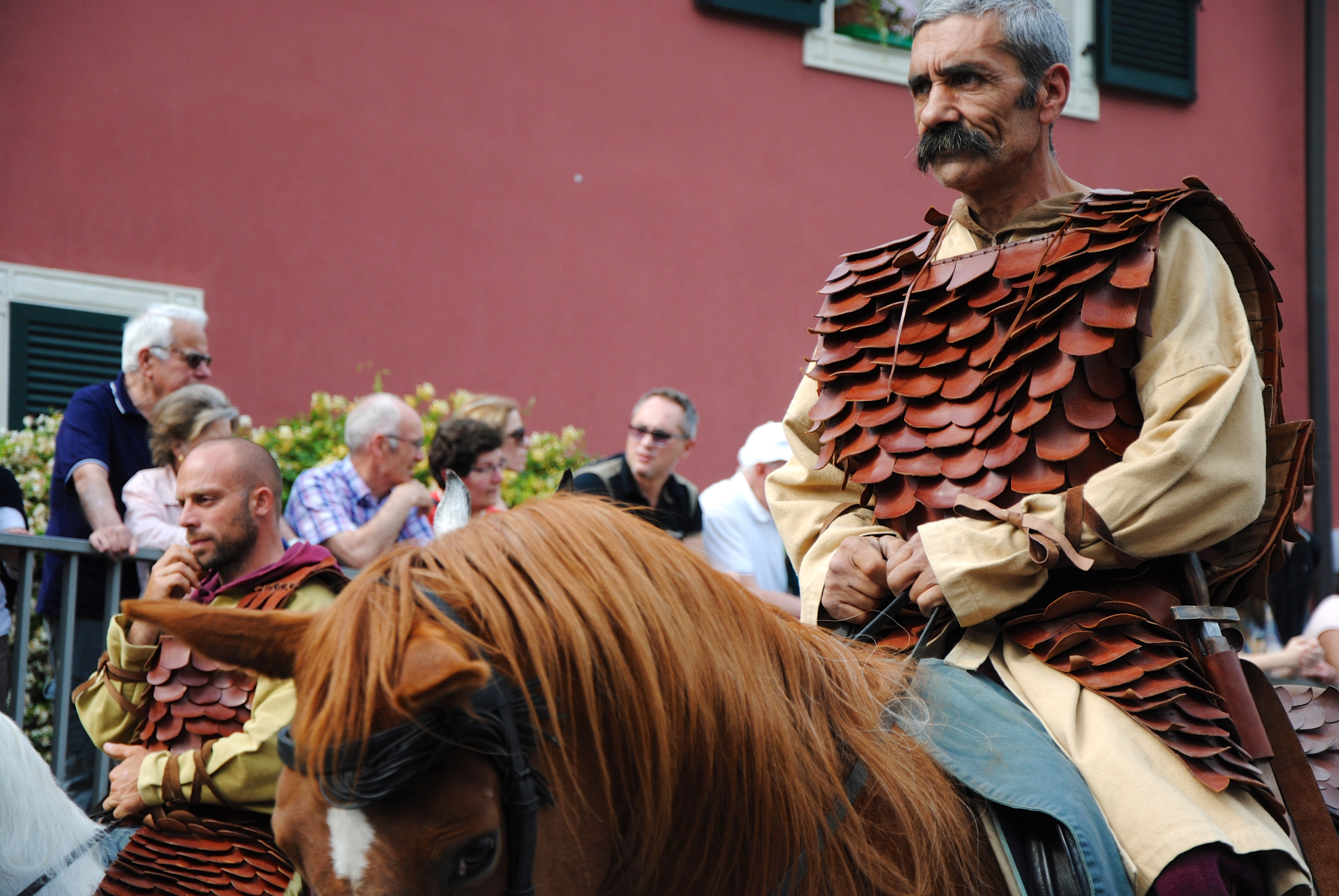 Medieval parade Palio di Legnano, knight warrior riding a horse